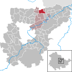 Willerstedt in Thuringia - District Weimarer Land